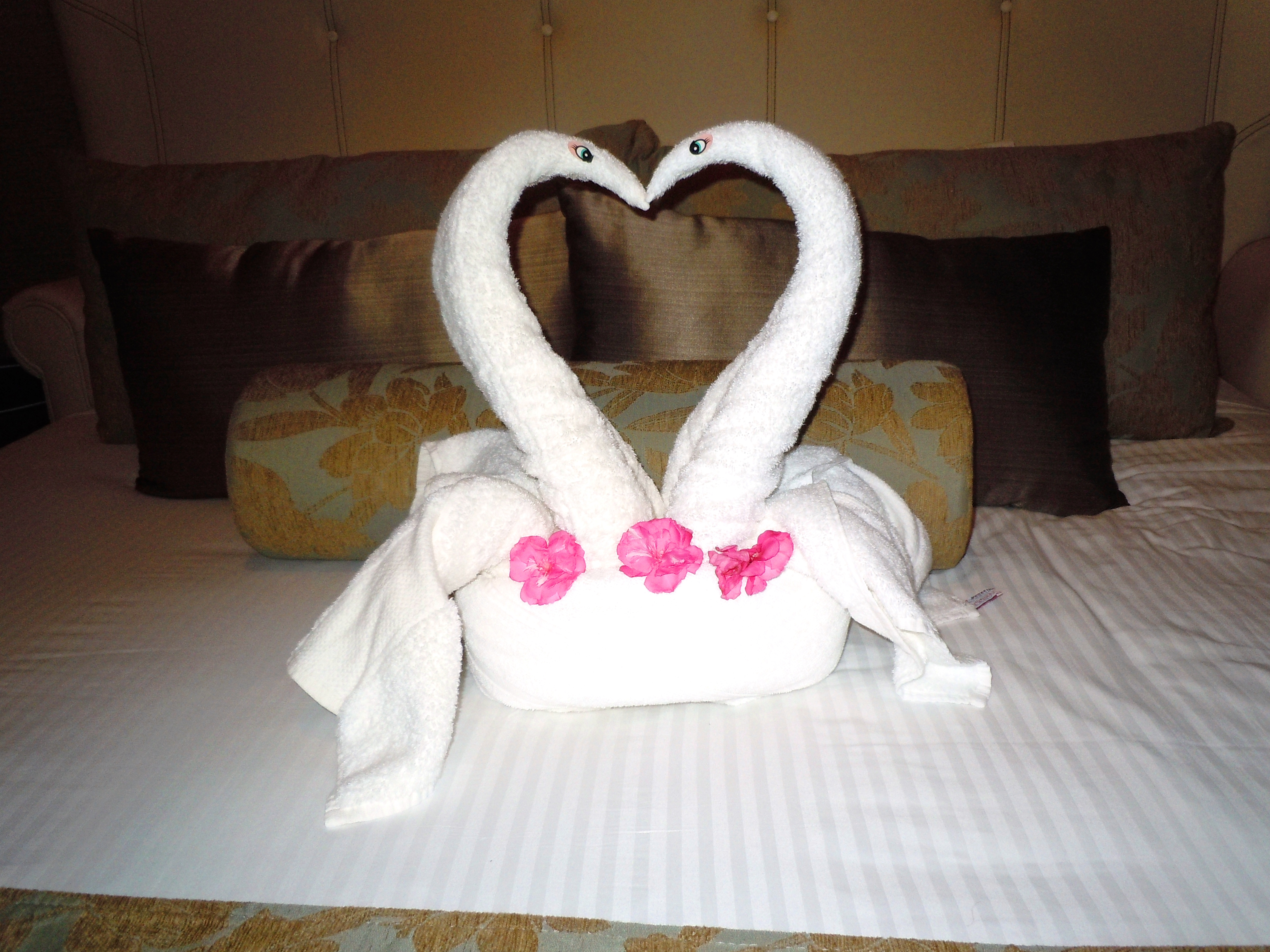 Love bird towel animals from Grand Luxxe in Riviera Maya.